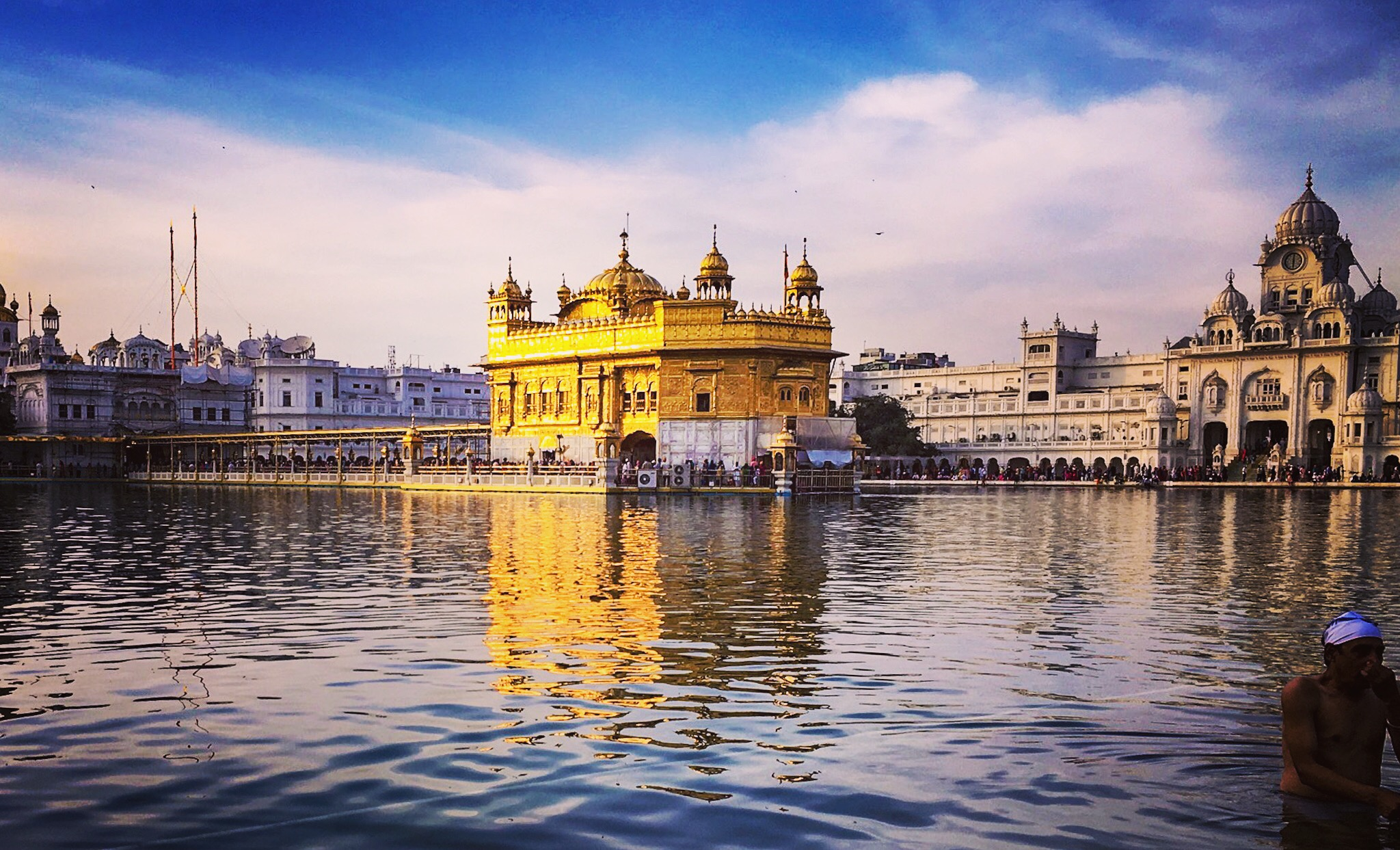 Golden temple , Amritsar is the holiest Gurudwara of SIkhism